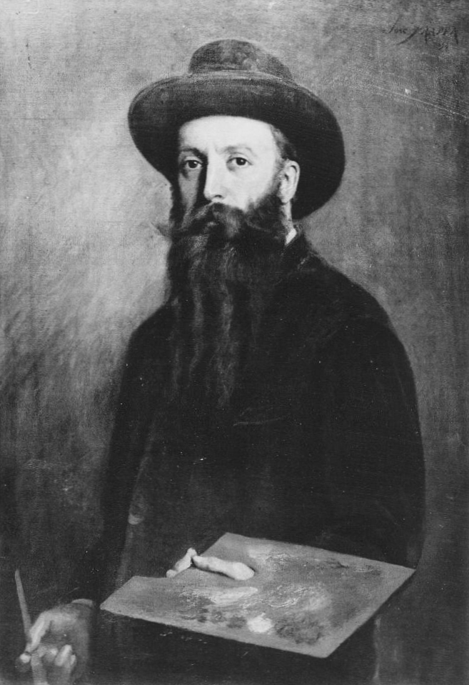 Alphonse Stengelin (1852-1938) José Frappa (1854-1904). Héliogravure parue dans la revue L'Œuvre d'art du 5 novembre 1895.